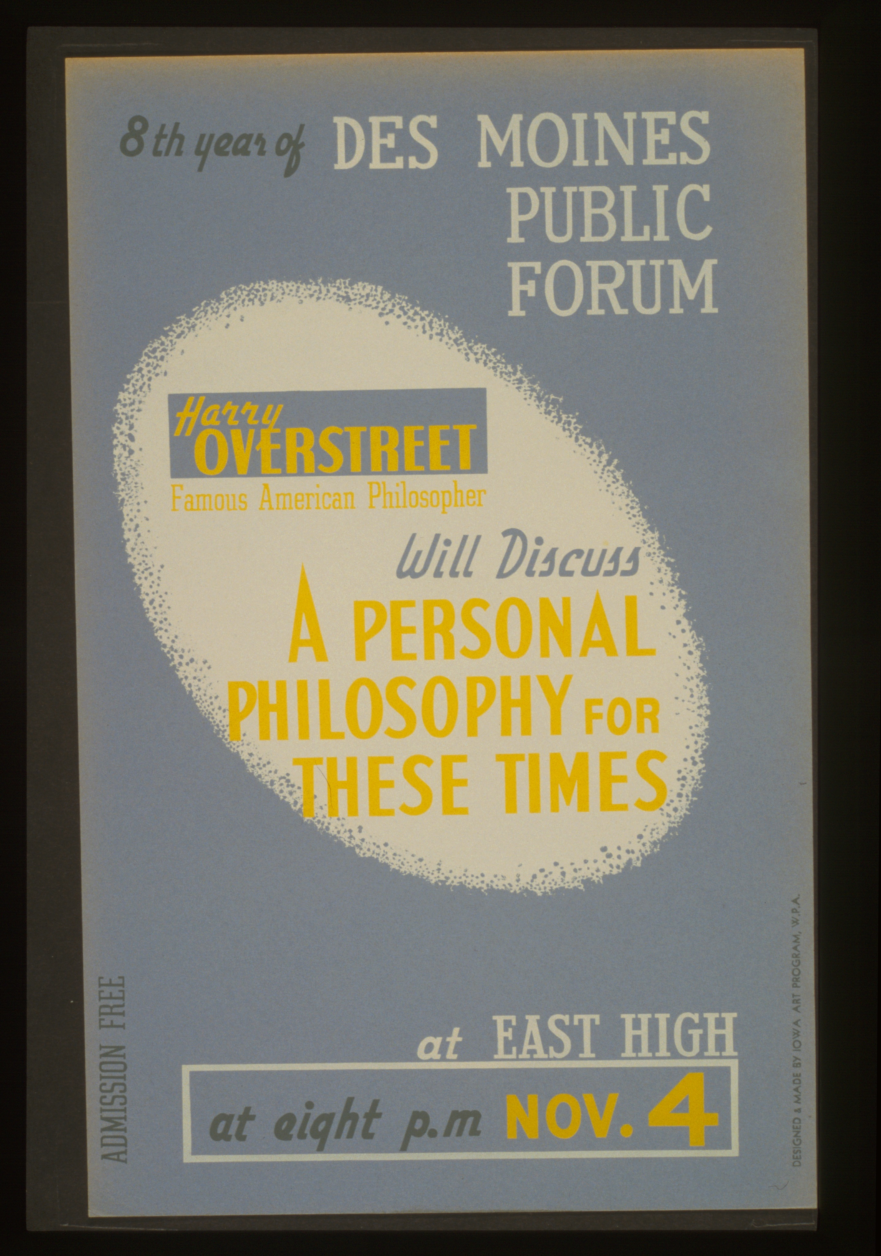 Title: 8th year of Des Moines public forum - Harry Overstreet, famous American philosopher, will discuss a personal philosophy for these times Abstract: Poster for a public forum at East High, Des Moines, Iowa. Physical description: 1 print on board (poster) : silkscreen, color. Notes: designed & made by Iowa Art Program, W.P.A.; Work Projects Administration Poster Collection (Library of Congress).; Date stamped on verso: Nov 8 1940.